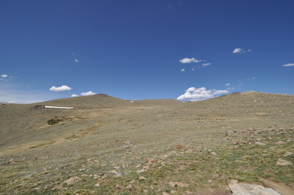 View of the tundra near the Forest Canyon Overlook of the Trail Ridge Road of Rocky Mountain National Park near Estes Park, Colorado. This area is the general location of the historic Beatrice Willard Alpine Tundra Research Plots.